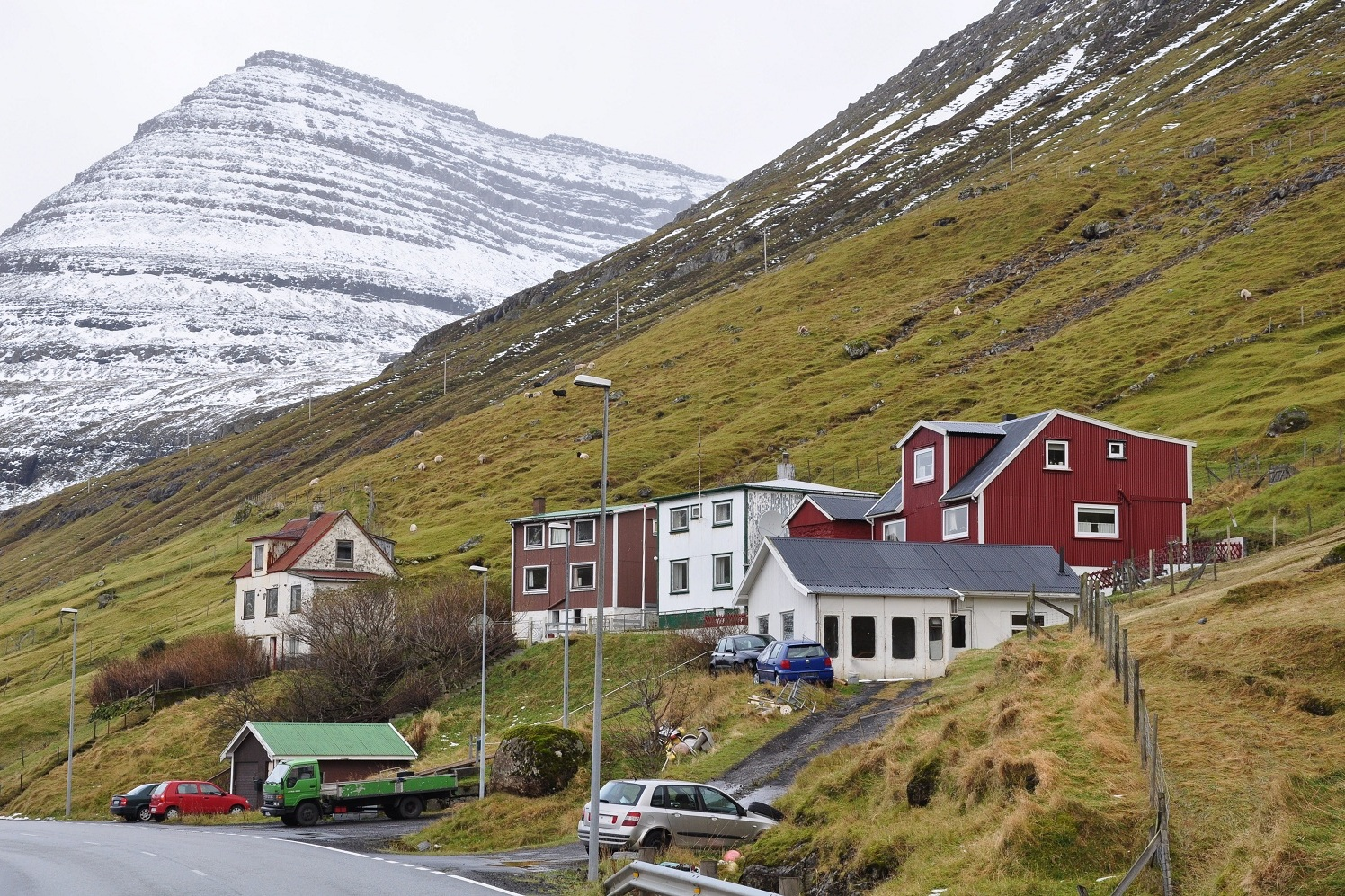 Ánir, a hamlet on the west coast of the island of Borðoy in the Faroe Islands.